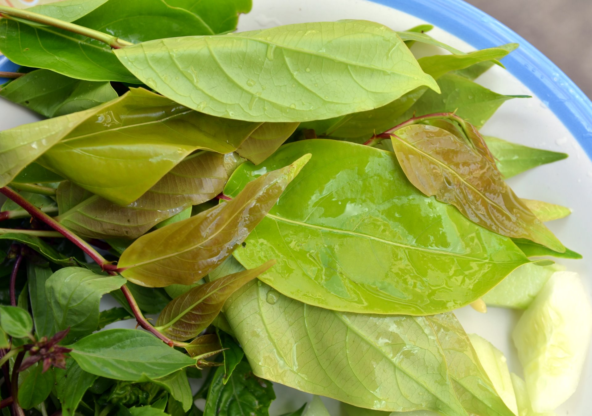 Bai makok (Thai script: ใบมะกอก) is the leaf of the Spondias mombin, a relative of the cashew. The young leaves are served raw with certain types of nam phrik (Thai chilli pastes). The taste is sour and slightly bitter.